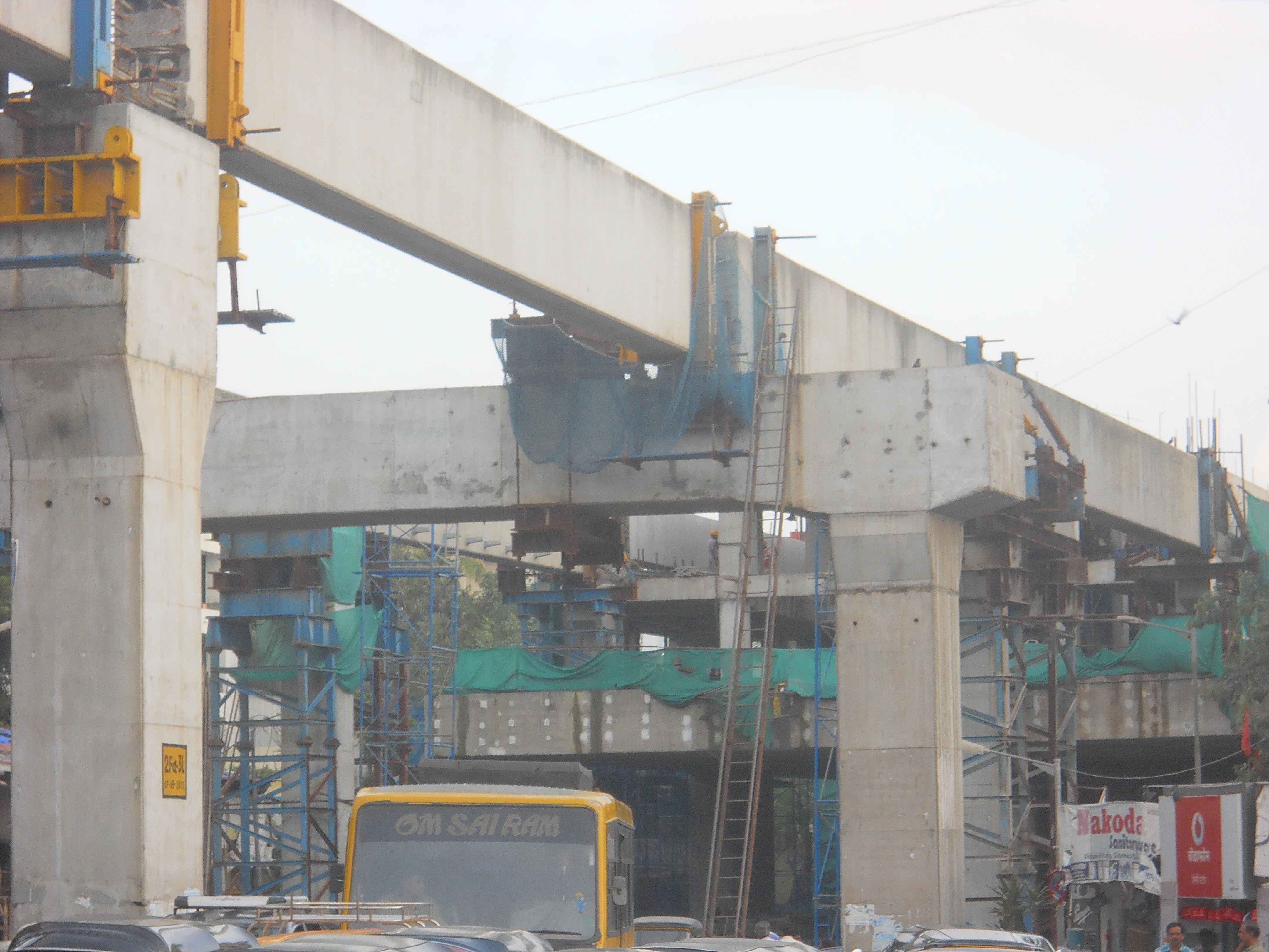 Mumbai monorail under construction in Chembur